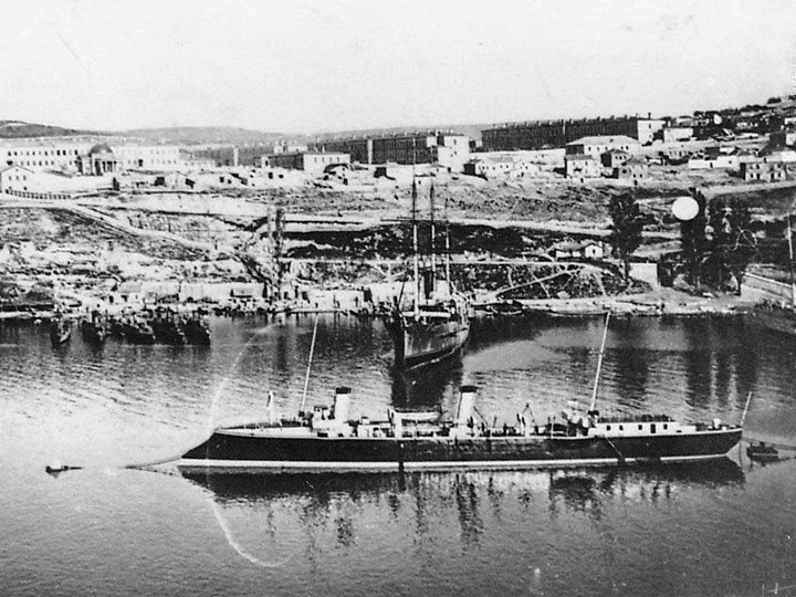 Imperial Russian torpedo cruiser Kapitan Saken in Sevastopol (service 1890-1907).